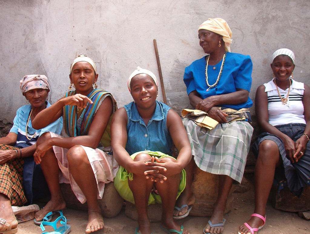 Local women in Santiago island, Cape Verde